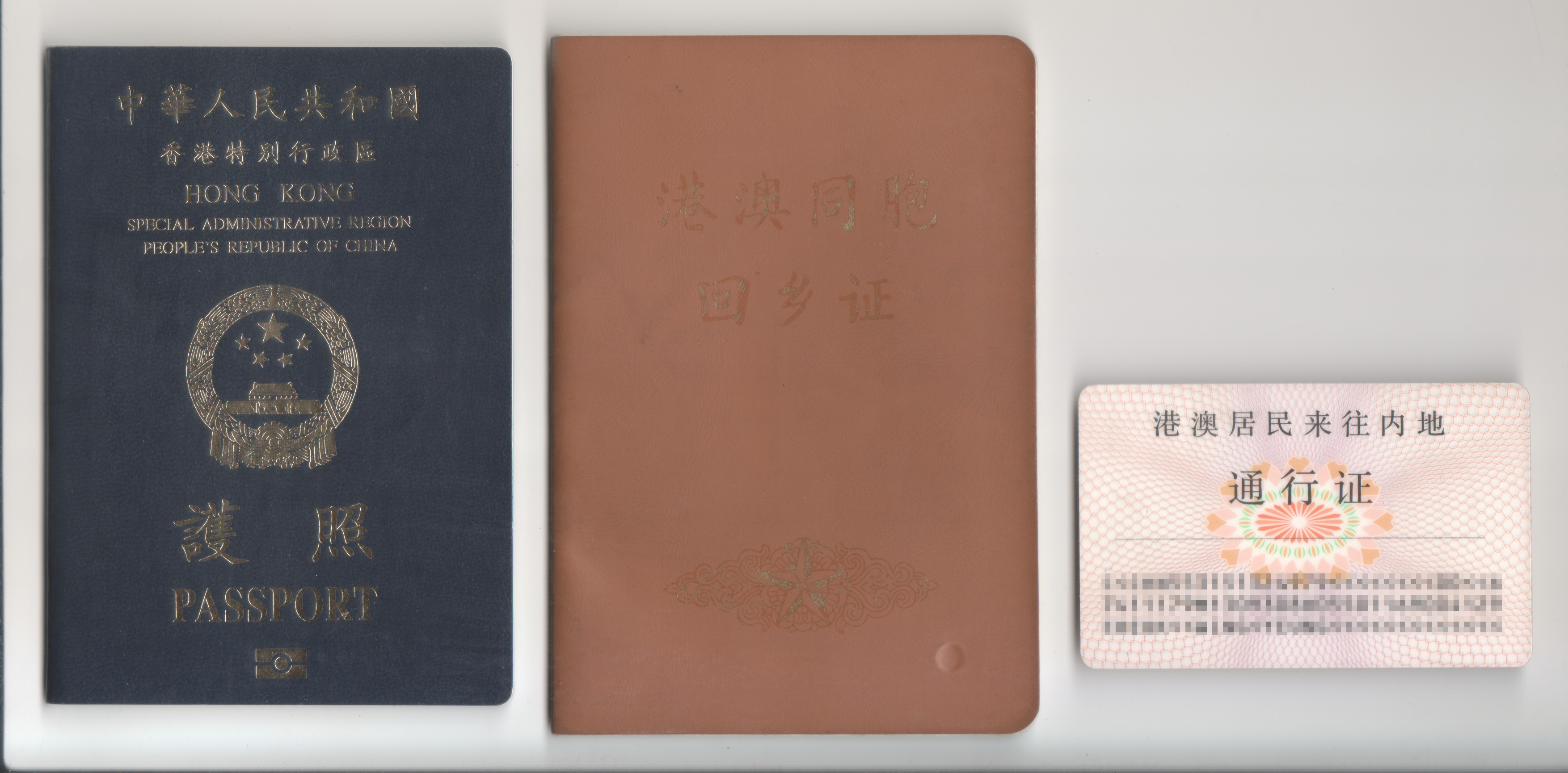 cover page of HKSAR passport and old and new versions of home return permit